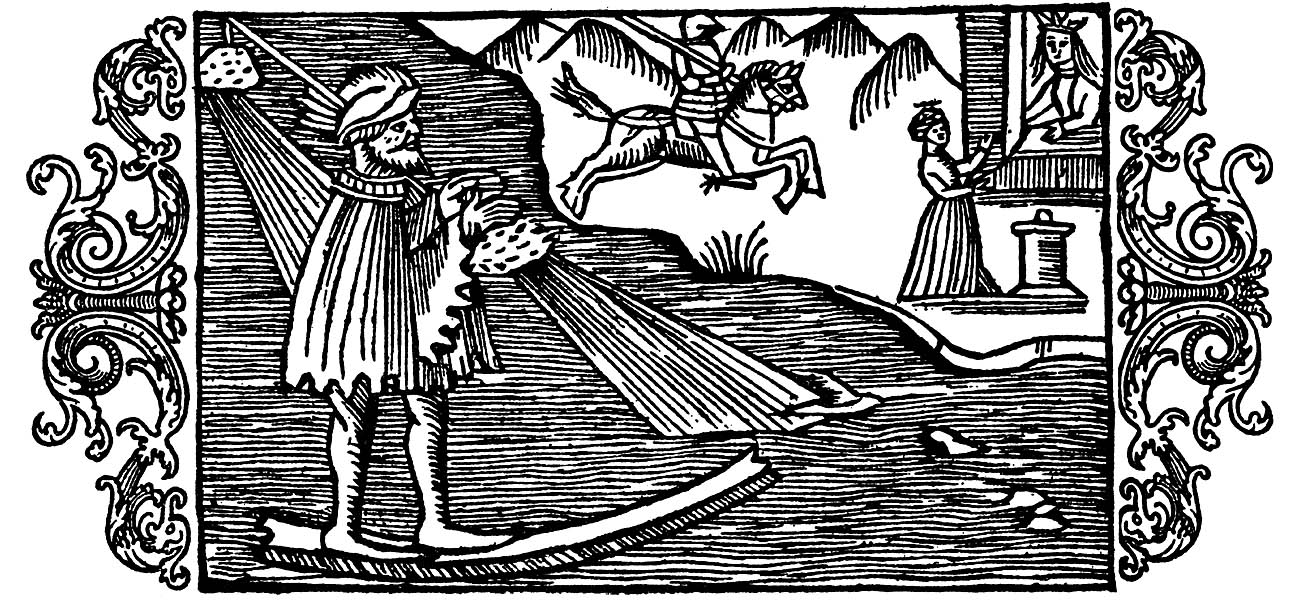 The magician Holler (also called Ull) stands on a bone from an animal. With help of this and the stick over his left shoulder he is able to travel across the seas. The stick seems to produce the necessary winds. On the shore (perhaps Iceland) a knight on a horse and a princess in a window.